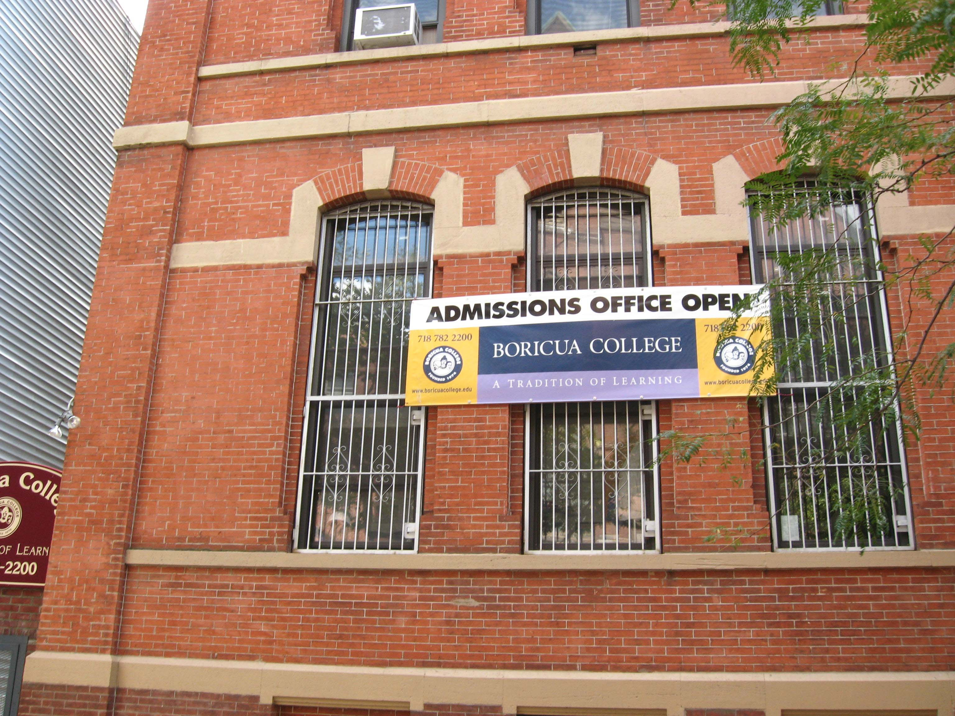 Looking south across North 6th at Boricua College admissions office building on a mostly sunny midday